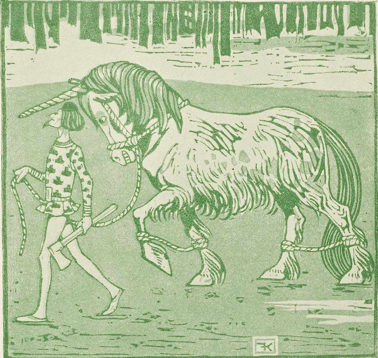 "Das tapfere Schneiderlein" (The Brave Little Tailor)